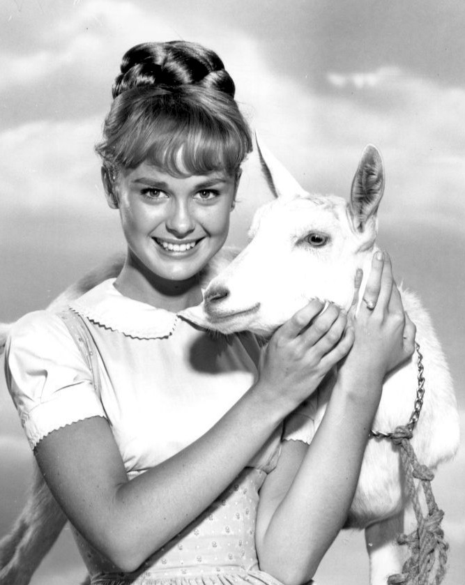 Photo of Debbie Watson as Tammy from the short-lived television program of the same name.